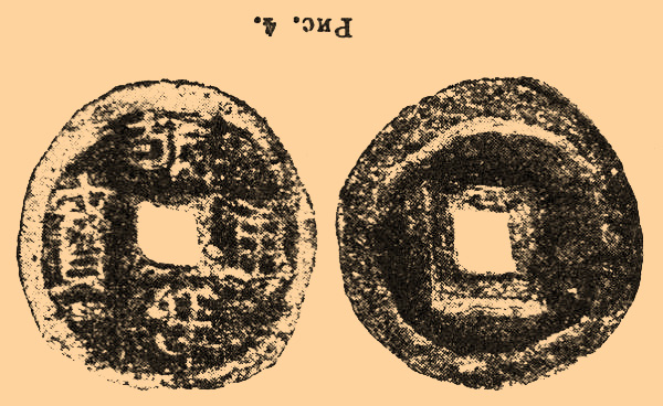 Illustration from Brockhaus and Efron Encyclopedic Dictionary (1890—1907). The coin is a Choson tong bo (朝鮮通寶) coin of Korea.